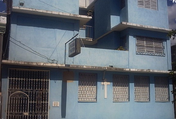 Fourth Baptist Church "Bethel" in Santiago de Cuba, Cuba Enramadas street, Santa Bárbara neighbourhood, between 2nd. and 3rd. 1057